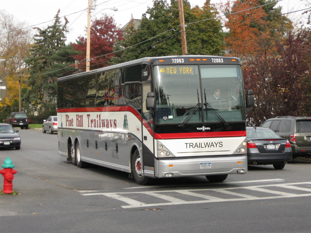 Trailways of New York (under the Pine Hills Trailways brand) Van Hool C2045L (#72063), leaves New Paltz on Schedule #709 on the Oneonta-NYC line. Van Hool Commuter C2045 (USA).